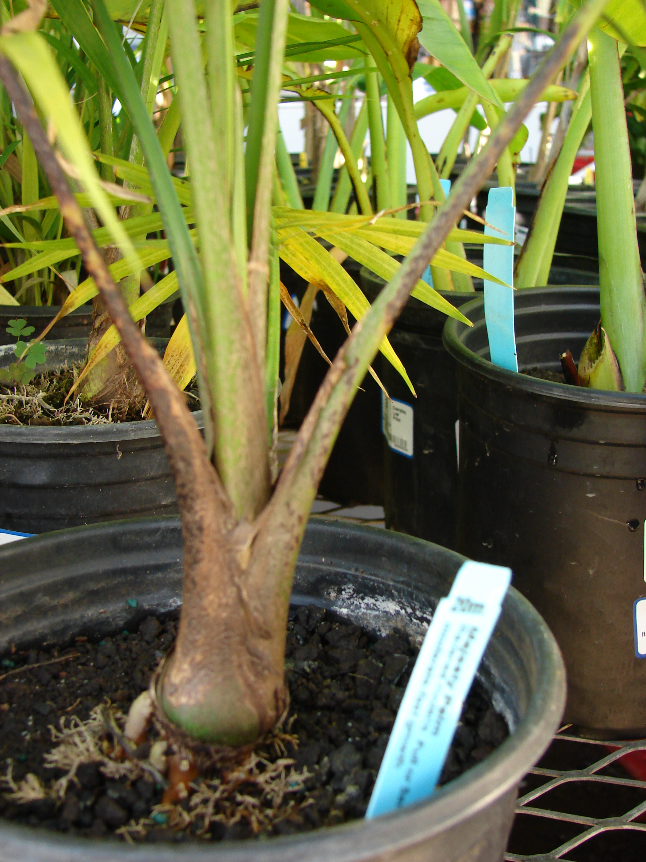 Ravenea rivularis (habit). Location: Maui, Lowes Garden Center Kahului